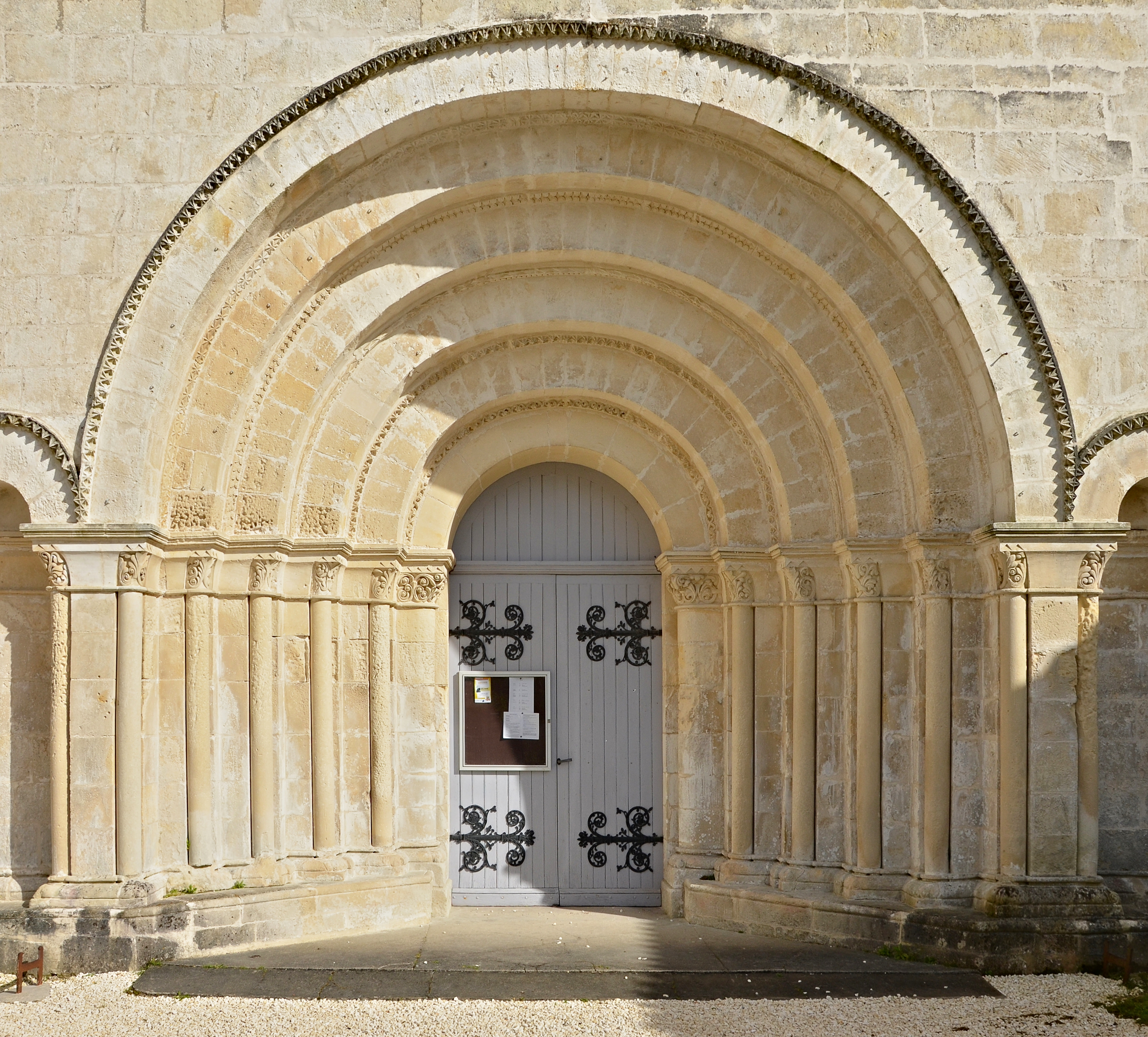 Portal of the church, Thénac, Charente-Maritime, France.